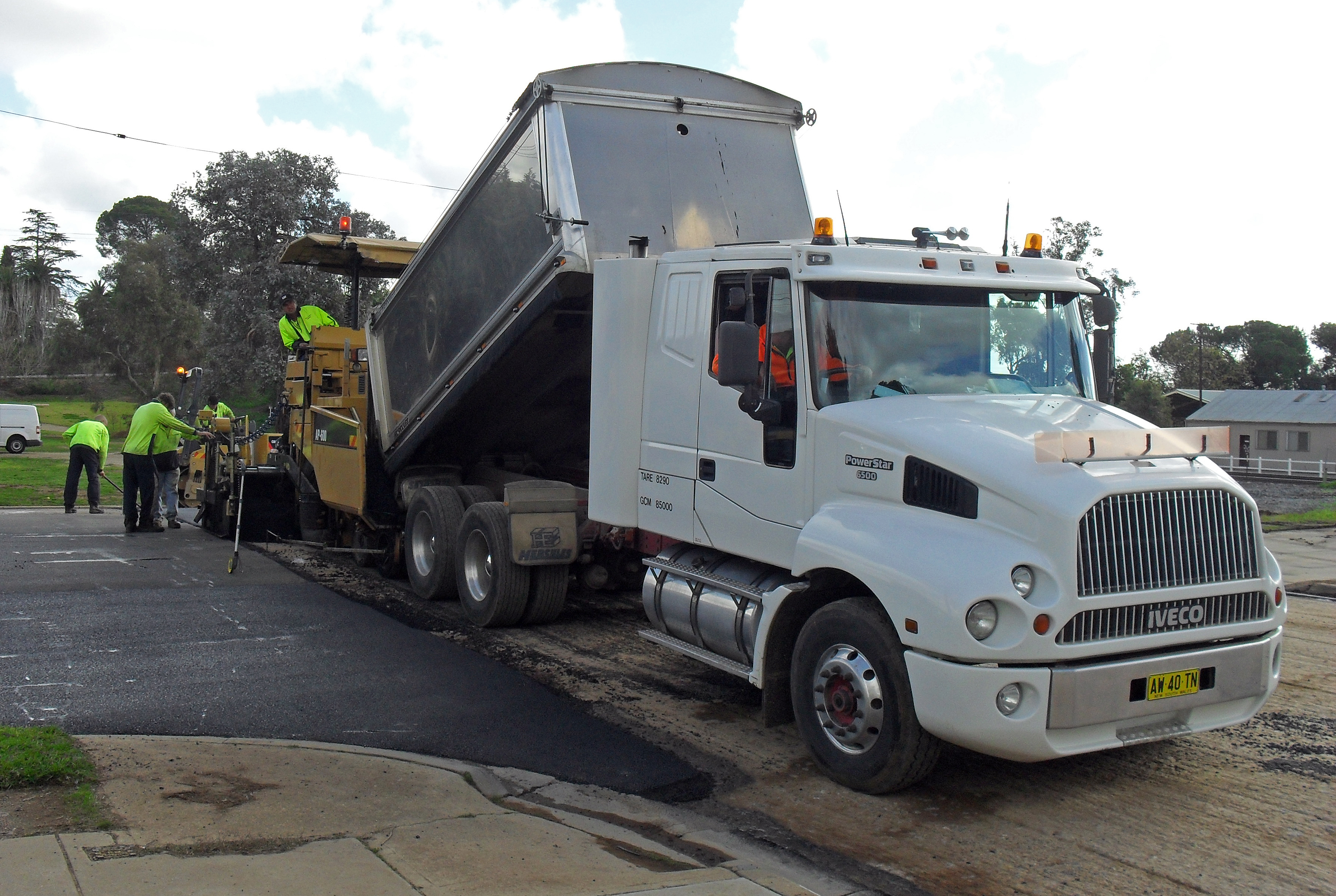 Road resurfacing of Macleay and Railway Steets in the Wagga Wagga suburb of Turvey Park. Iveco PowerStar 6500 truck.